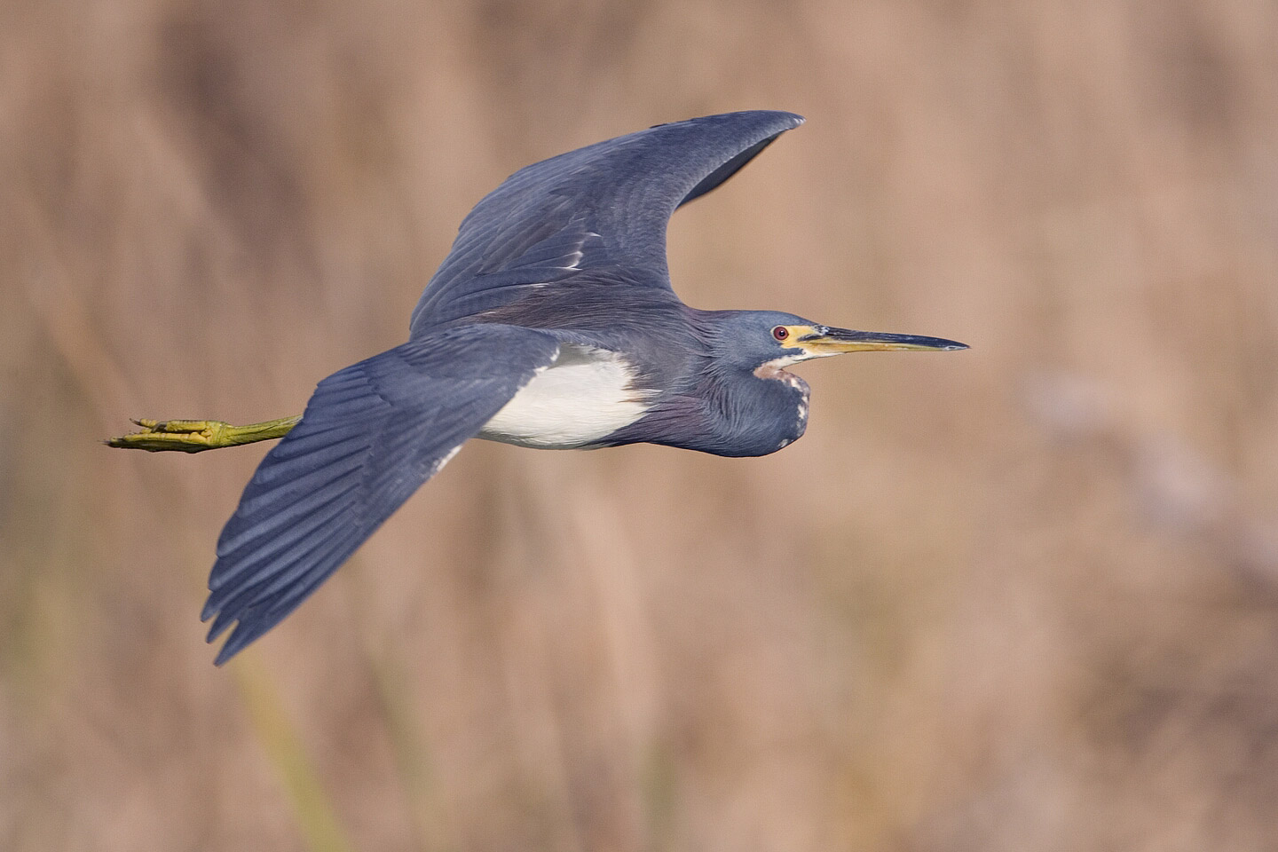 Tricoloured Heron, Birding Center, Port Aransas, Texas